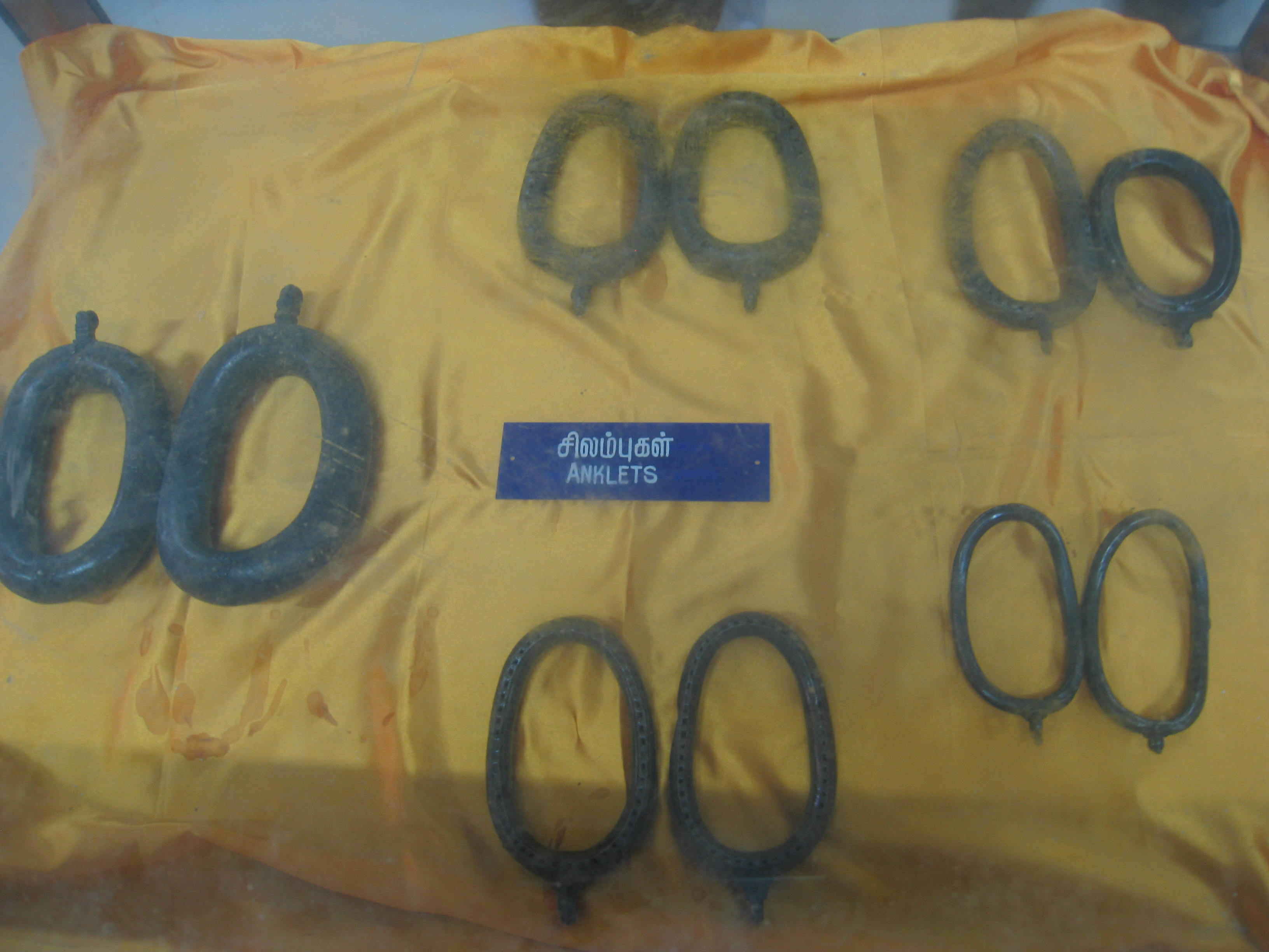 Anklets, Tamil Nadu